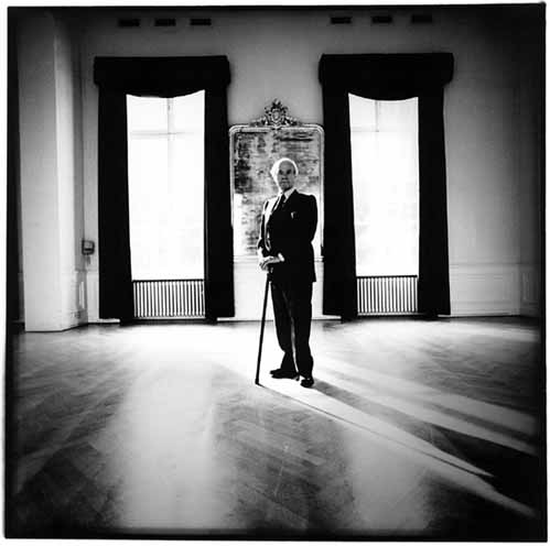 Henry Moore photographed by Lothar Wolleh